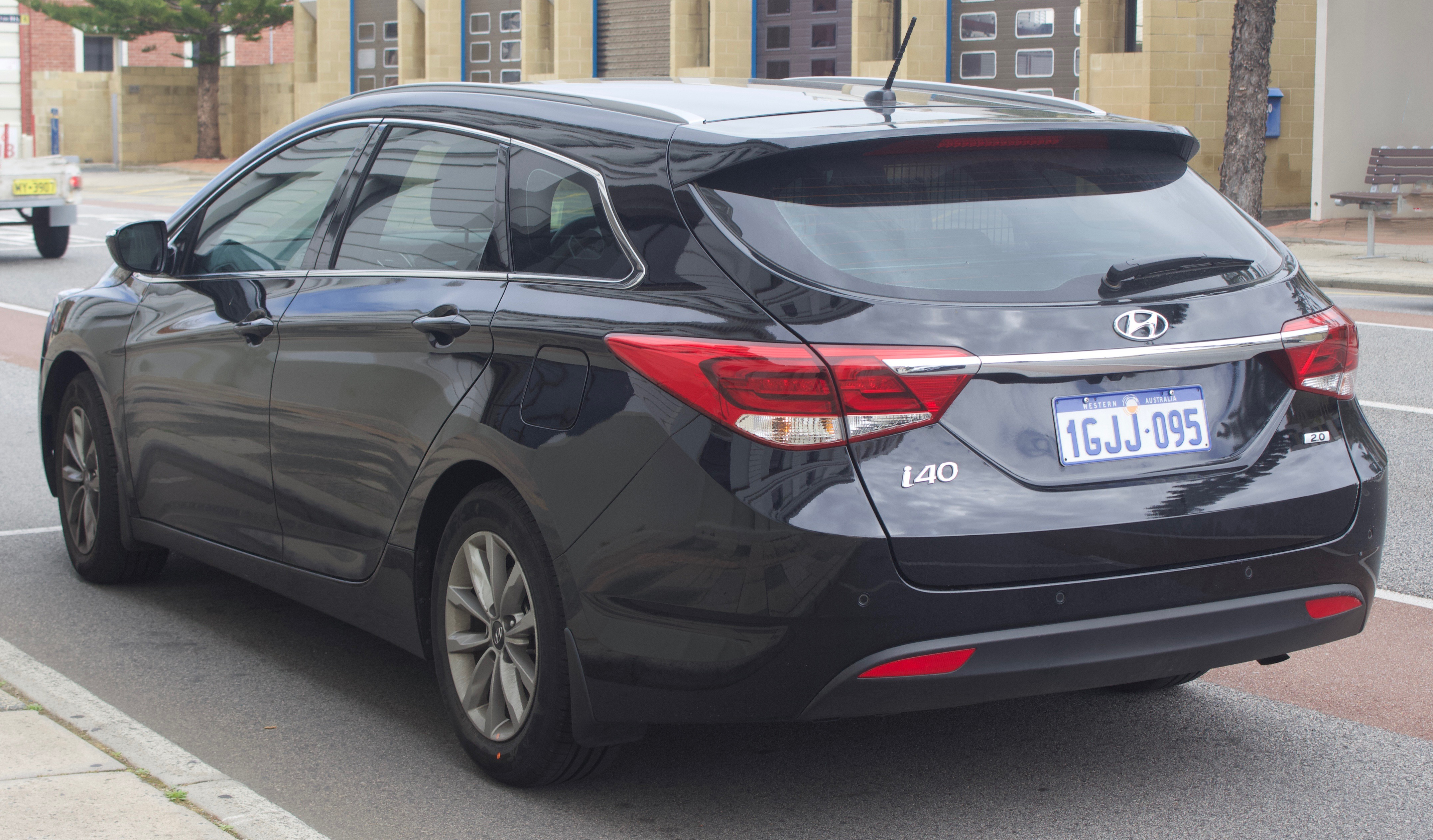 2017 Hyundai i40 (VF4 Series II) Active 2.0 station wagon. Photographed in Fremantle, Western Australia, Australia.